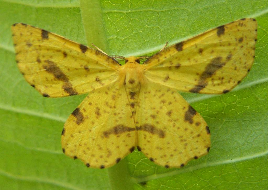 Xanthotype urticaria, False Crocus Geometer Moth - Hodges #6740